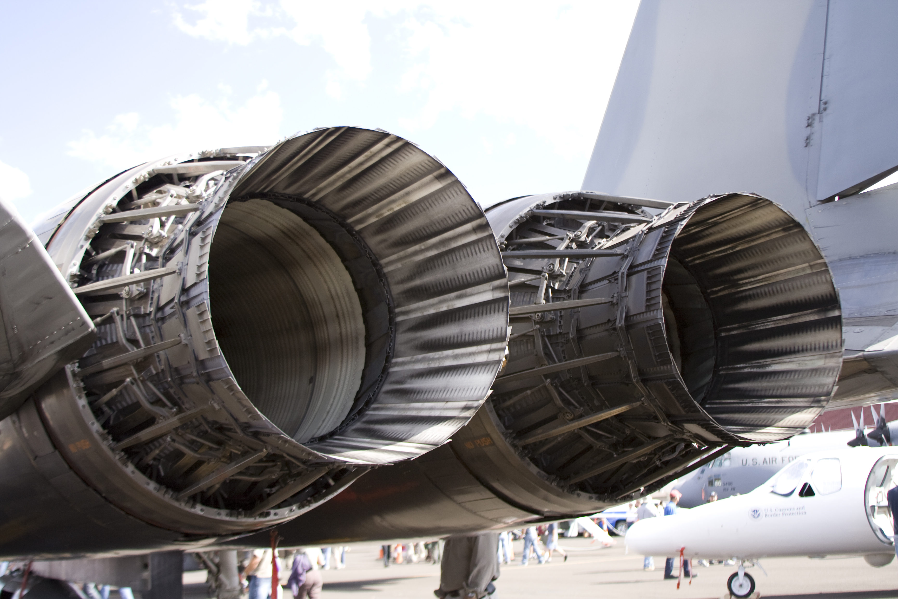 details of an F-15 Eagle nozzle